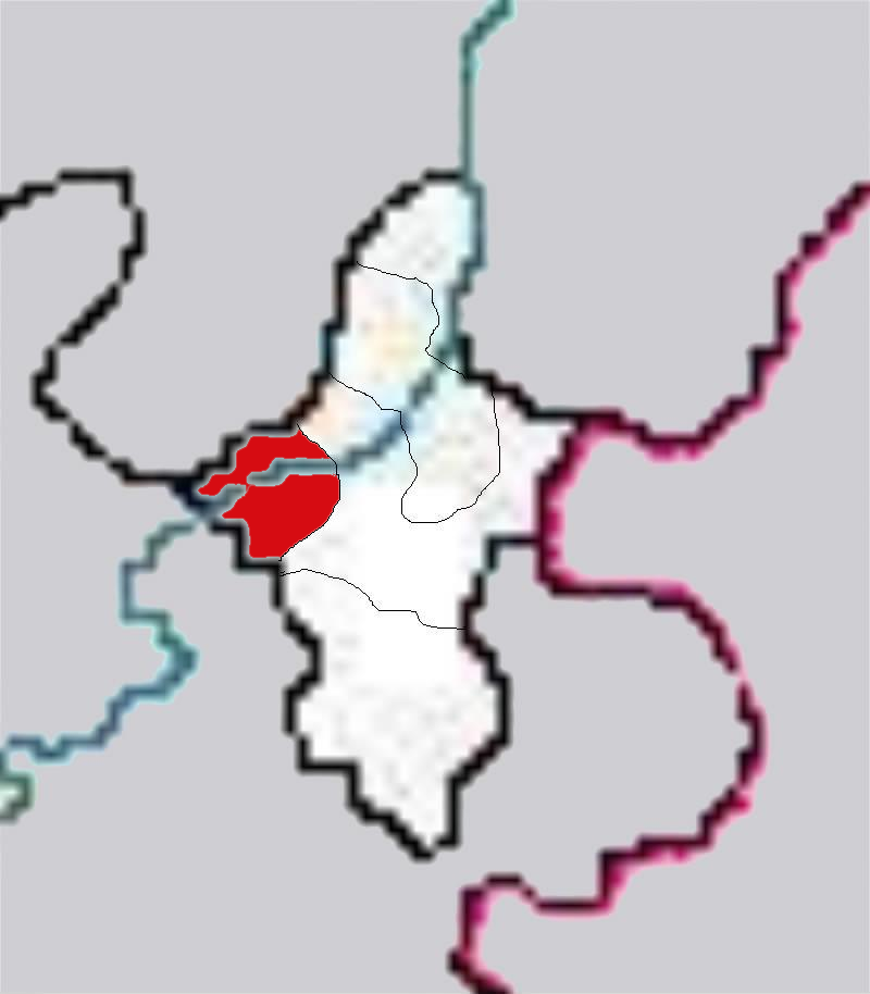 Maps of Ningxia Autonomous Region of China: Zhongwei City